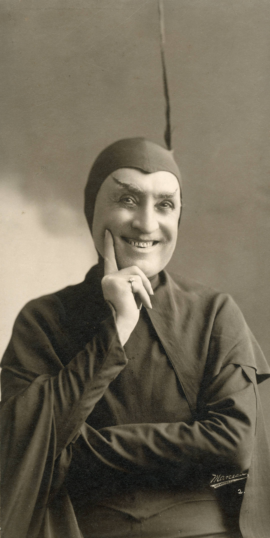 Lewis Morrison, stage actor Subjects: actors